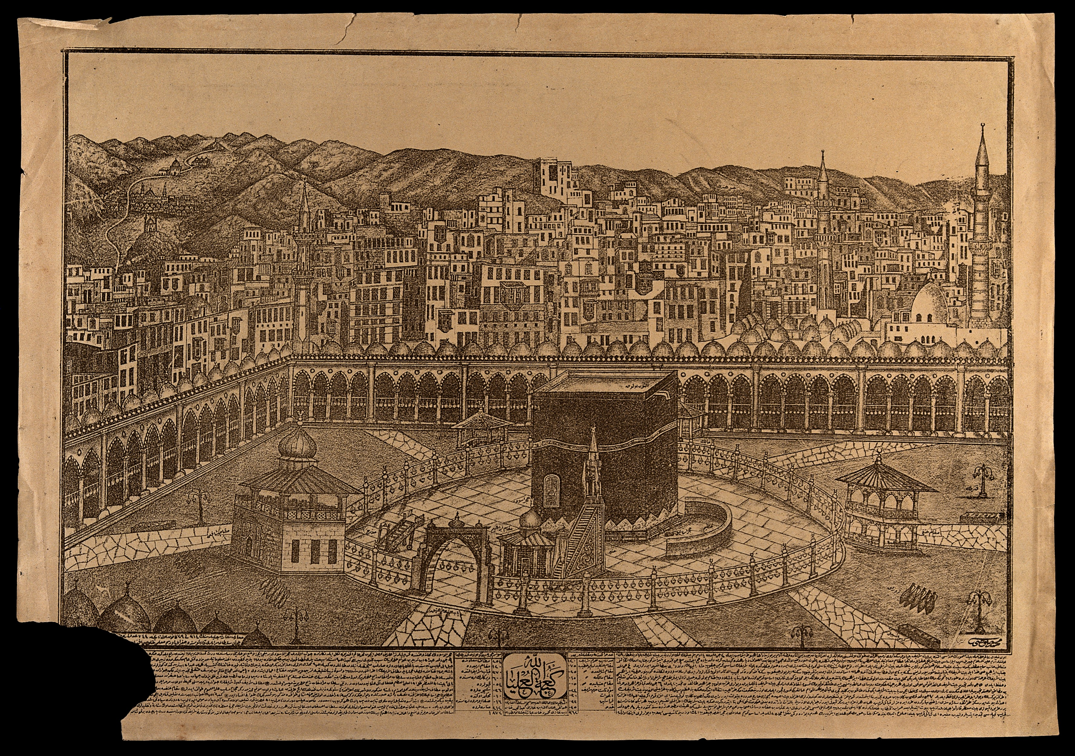 Mecca: shrine of Ka`bah within the Al-Haram mosque, with a view of the city. Lithograph, c. 1820. Iconographic Collections Keywords: al-harum mosque; mecca; Saudi Arabia; TOPOGRAPHY; SHRINE; kabah; Ka`bah.